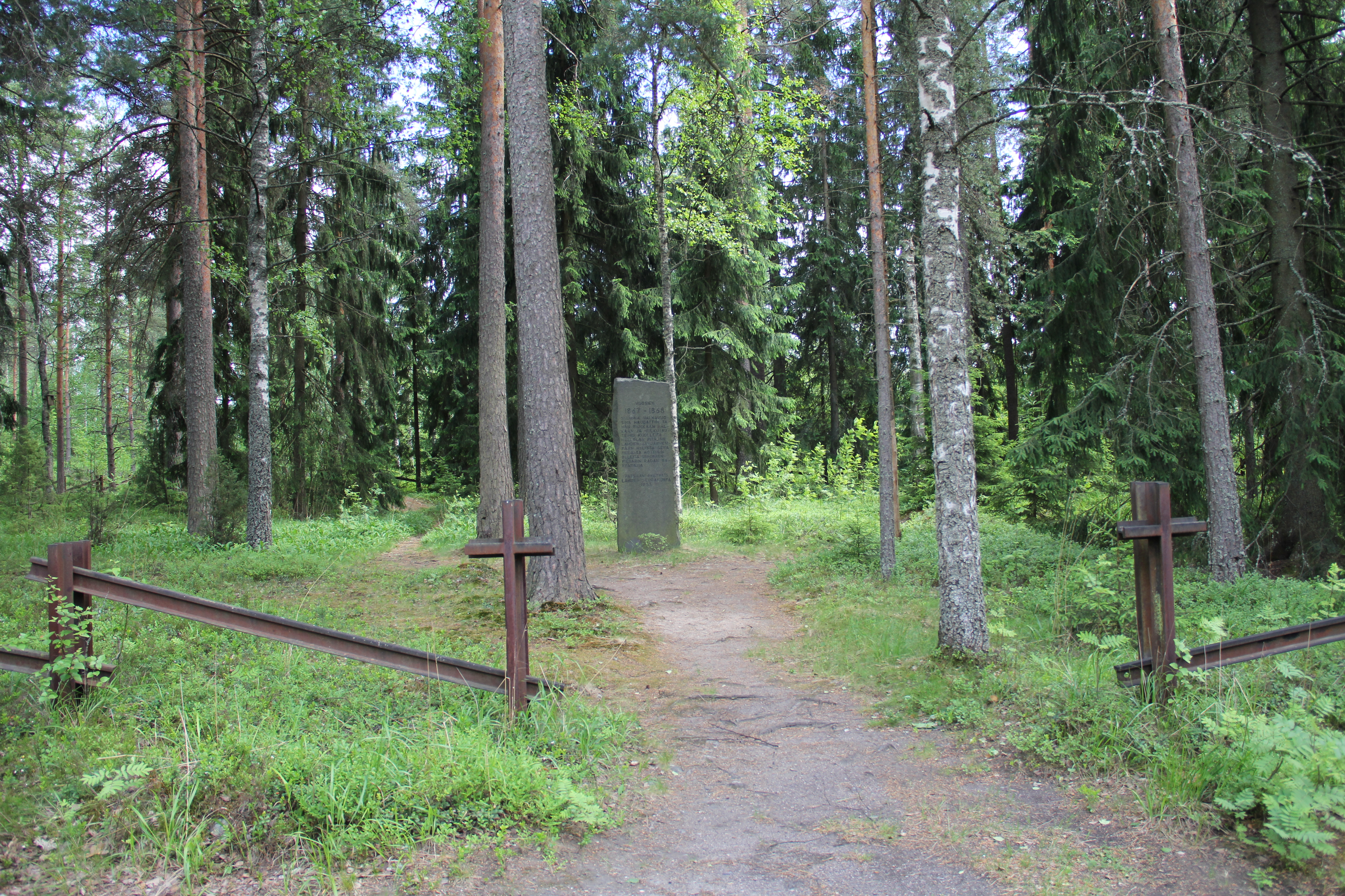 Railway track builders cemetery in Lahti, Finland. - Latin crosses as posts.